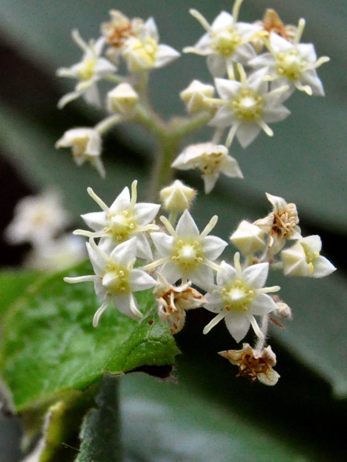 Commersonia bartramia; cymes and flowers. From Bogor, West Java, Indonesia.